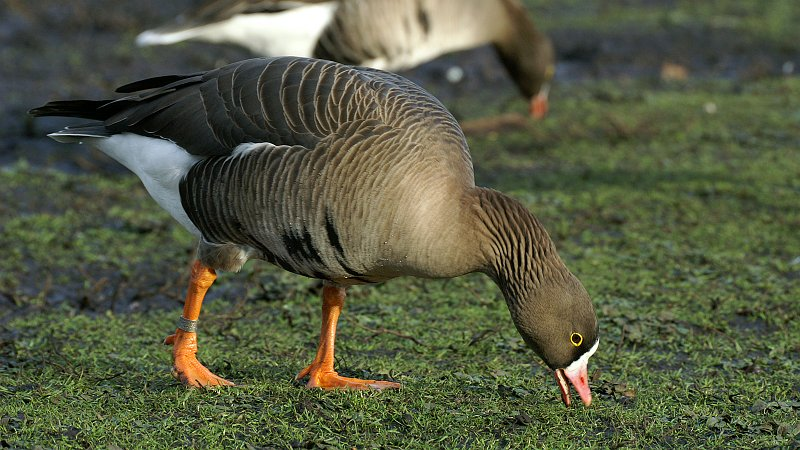 Lesser white fronted goose (Anser erythropus)